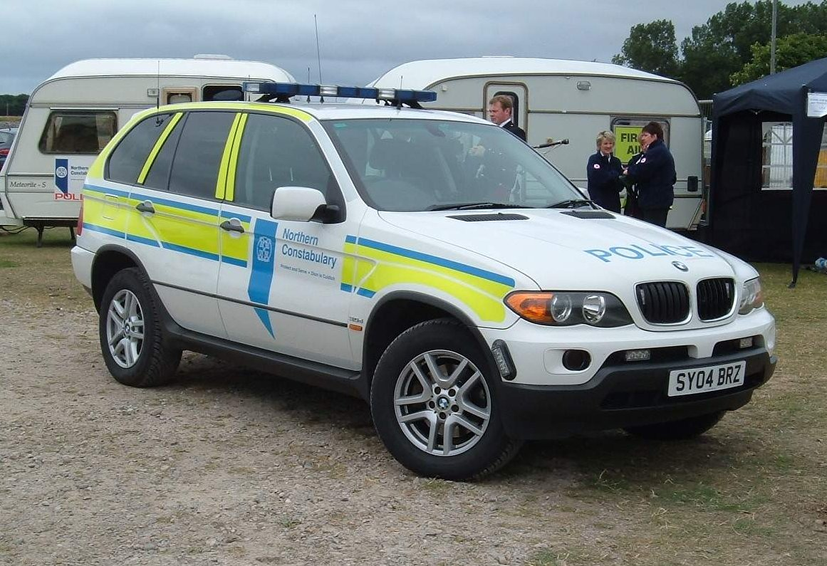 BMW X5 at British Pipe Band Championships at Tain, July 2005